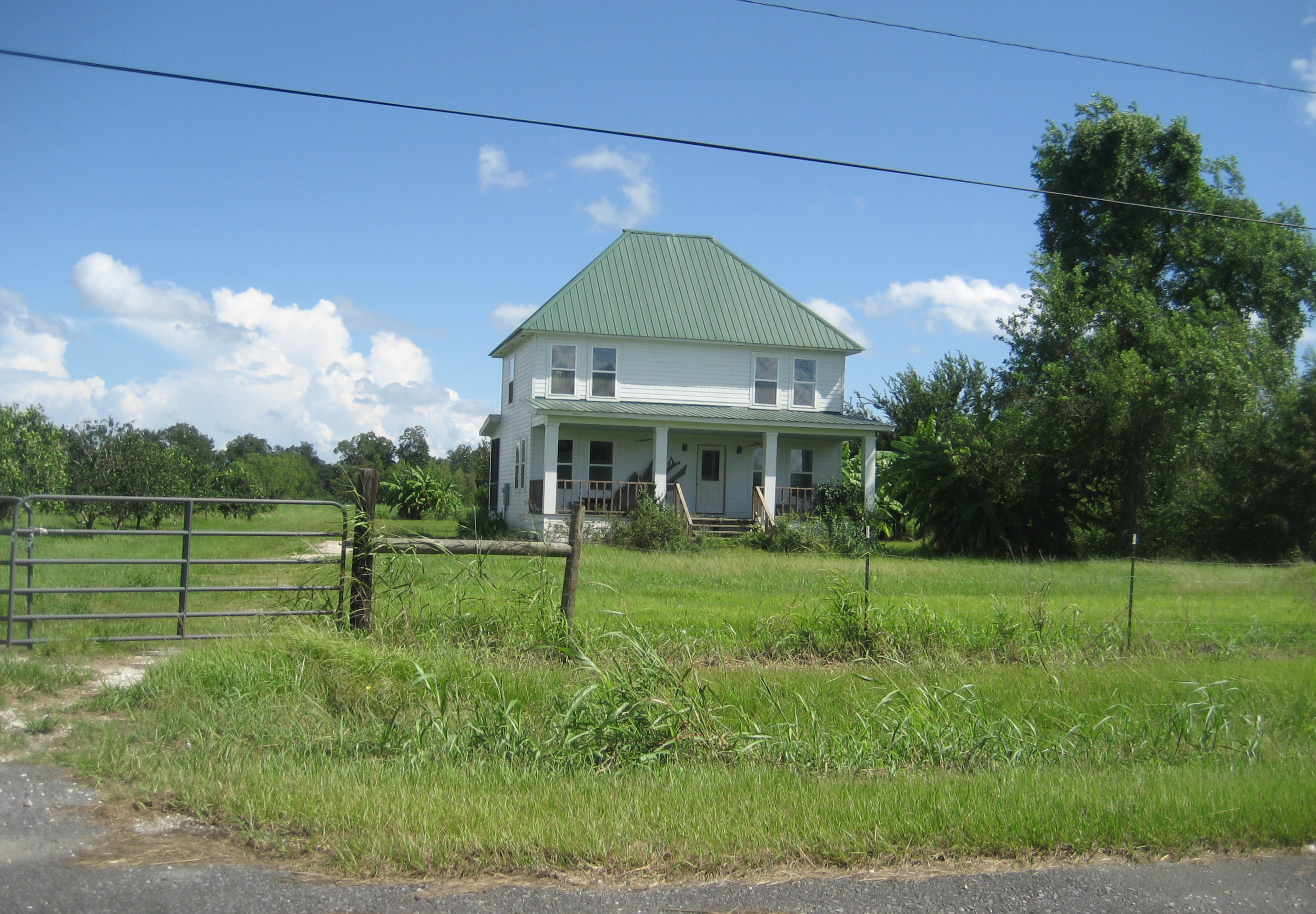 Plaquemines Parish, Louisiana. House on English Turn Road upriver from Scarsdale.